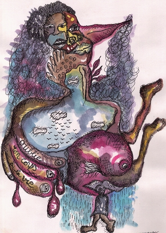 Hervé Yamguen, "oublie ton corps à la vie" – 2007. WikiAfrica Art: An artwork for Wikipedia. Pen&Watercolor Drawing.